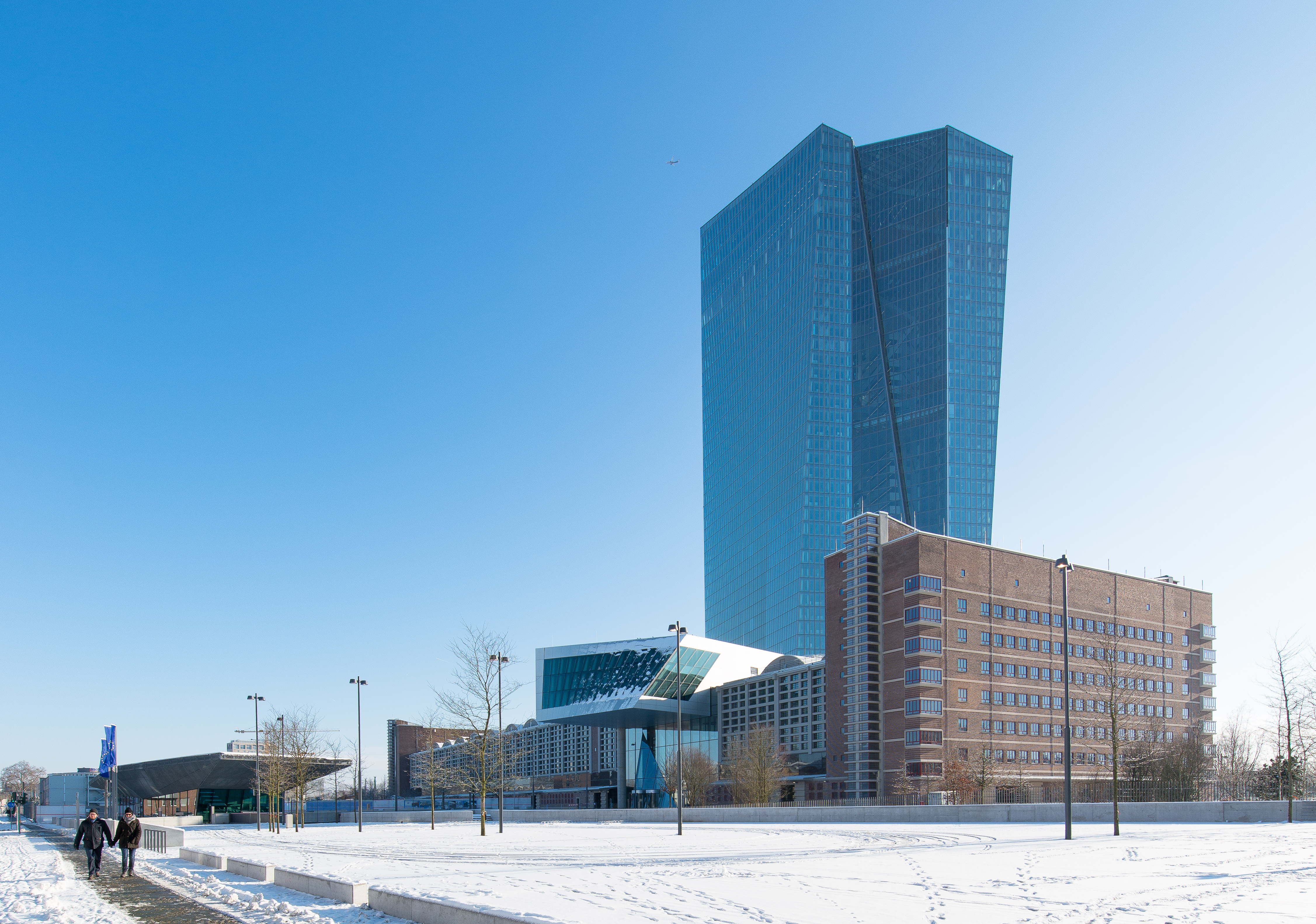 Frankfurt am Main: Building complex of the European Central Bank as seen from North-West (December 2014)